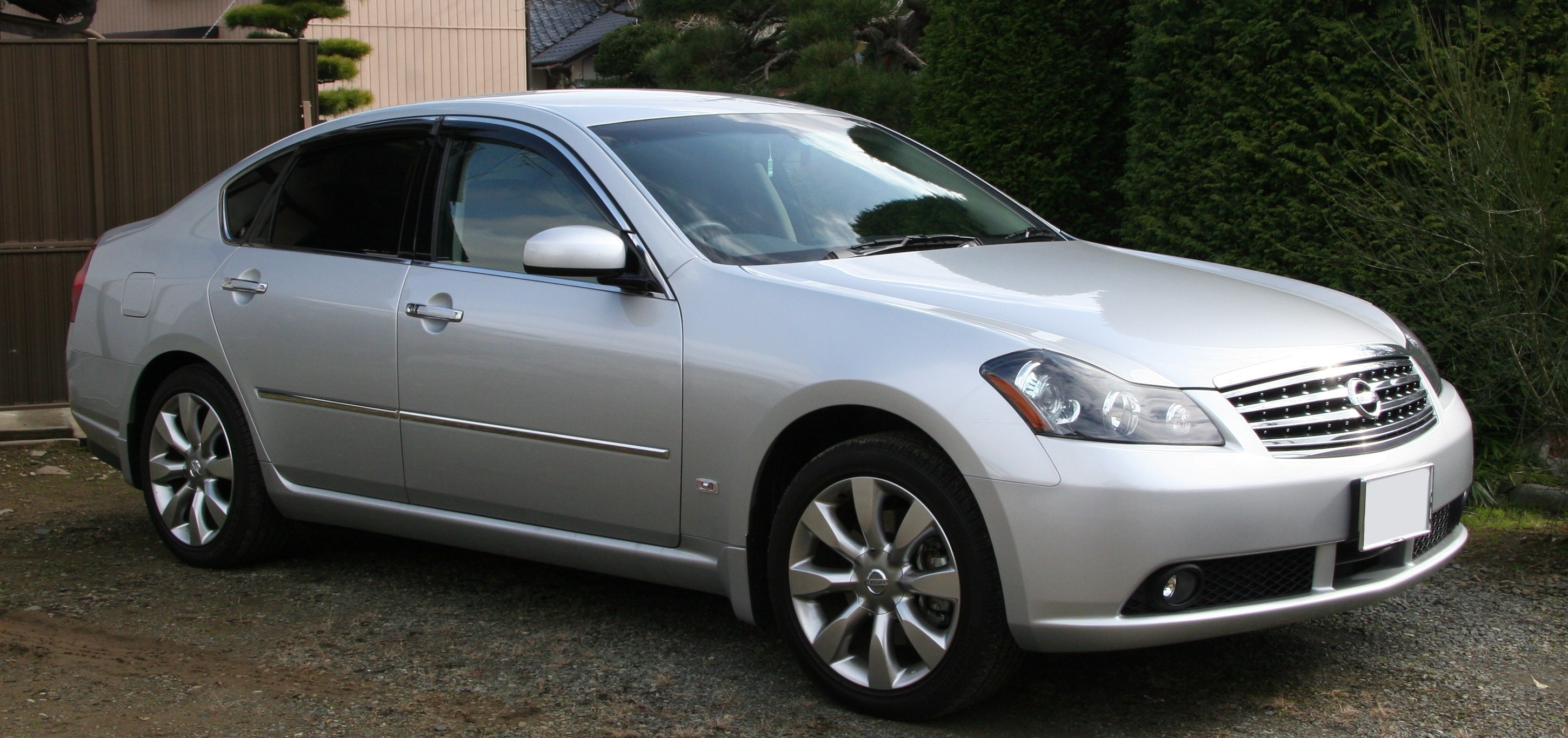 NISSAN FUGA